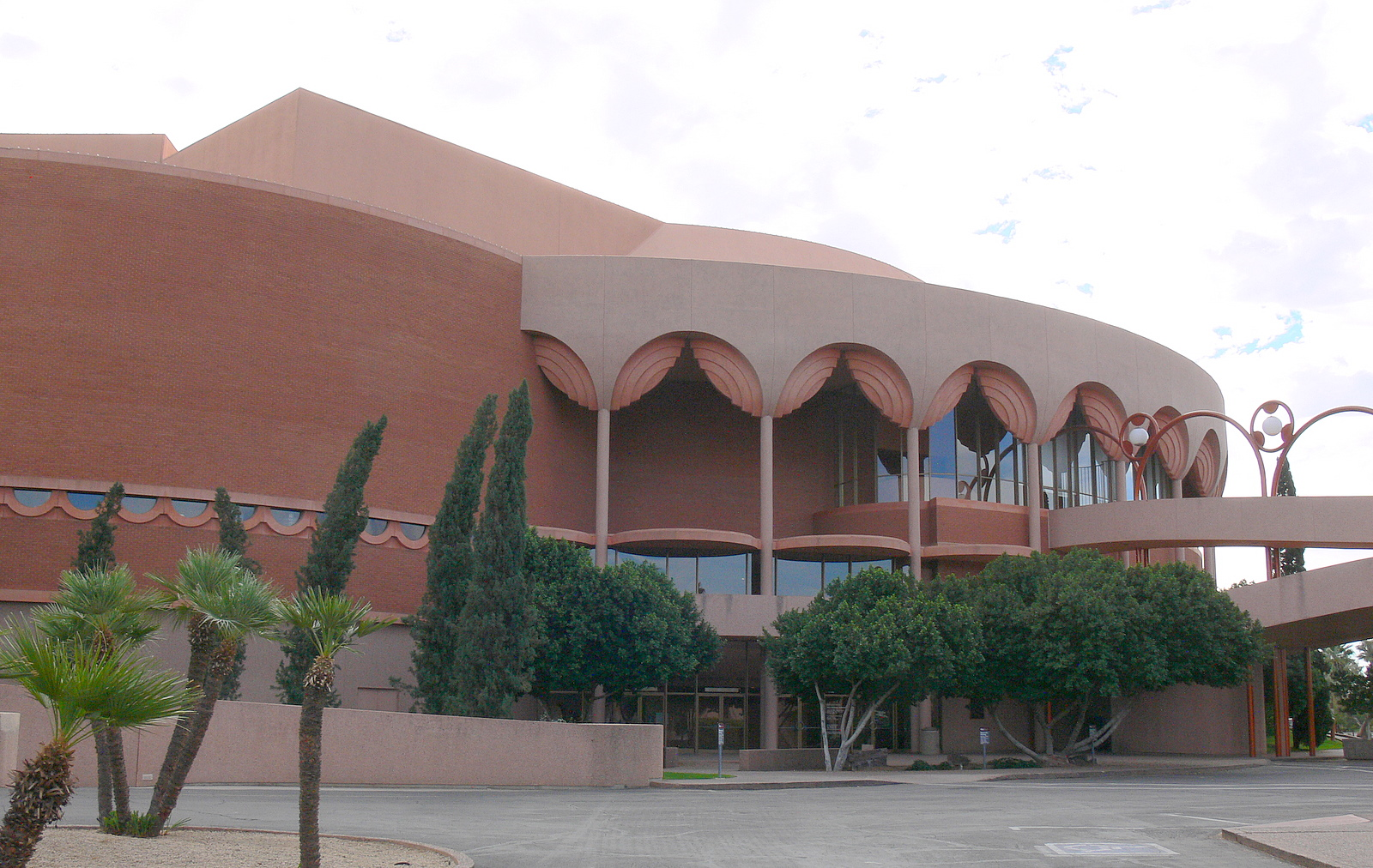 The image was personally taken by me in November 2006. Wars 16:50, 27 December 2006 (UTC)